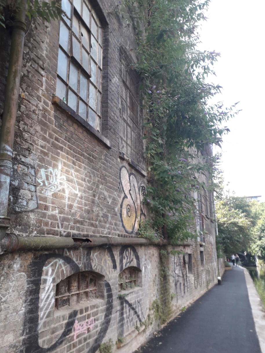 Caird & Rayner was an innovative factory making naval distillation apparatus. This is a view of the now derelict, but listed, building taken from the towpath of Limehouse Cut